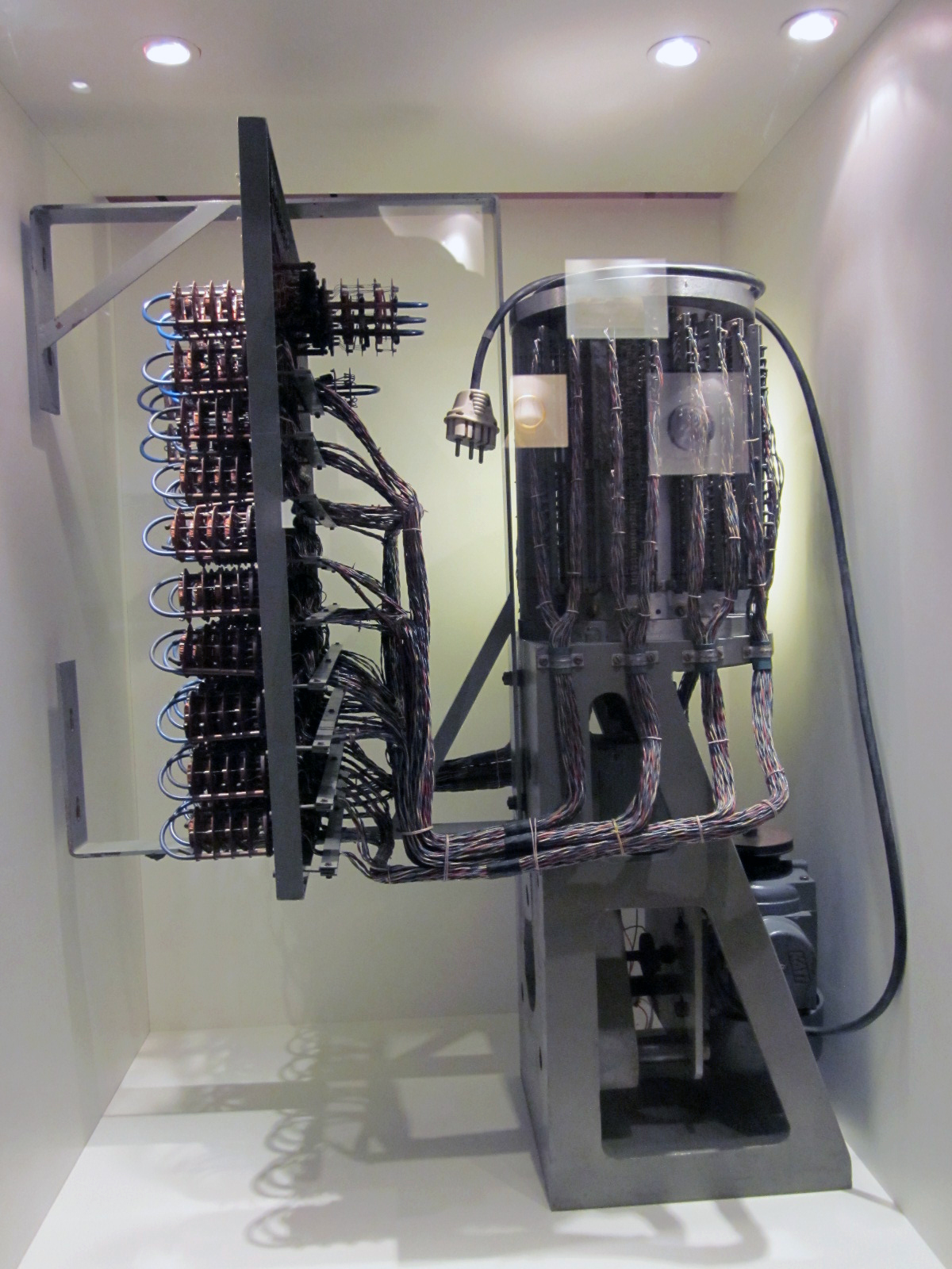 Drum storage (drum memory) Included in the Computers Z22 and Z23 1950s and 1960s